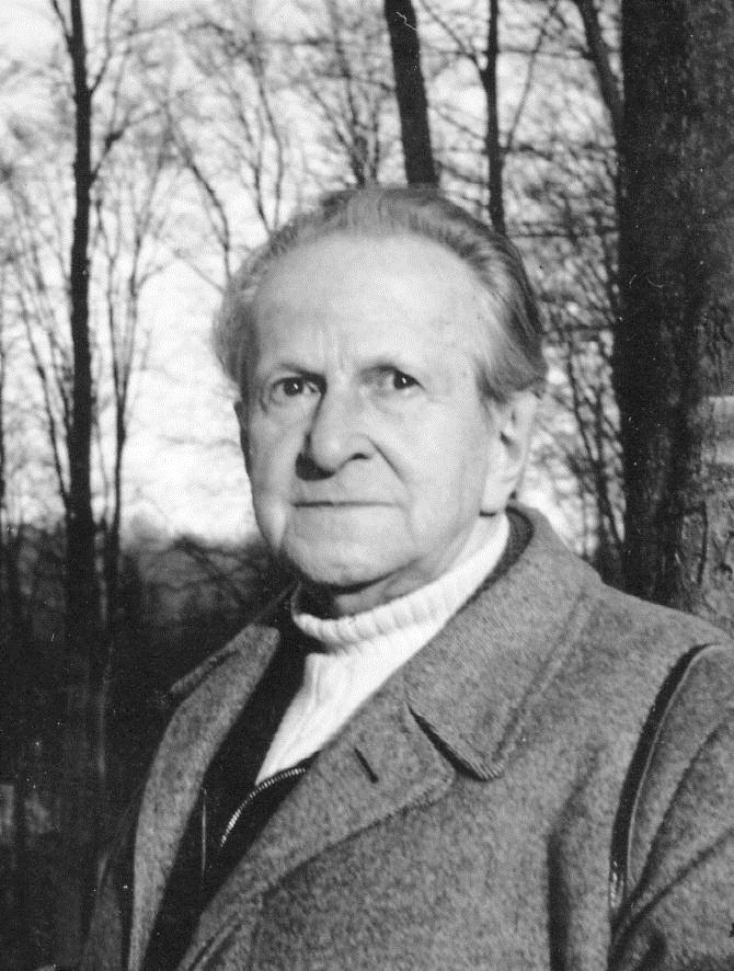 Felix Emmel (1888 - 1960) private photograph about 1959/60